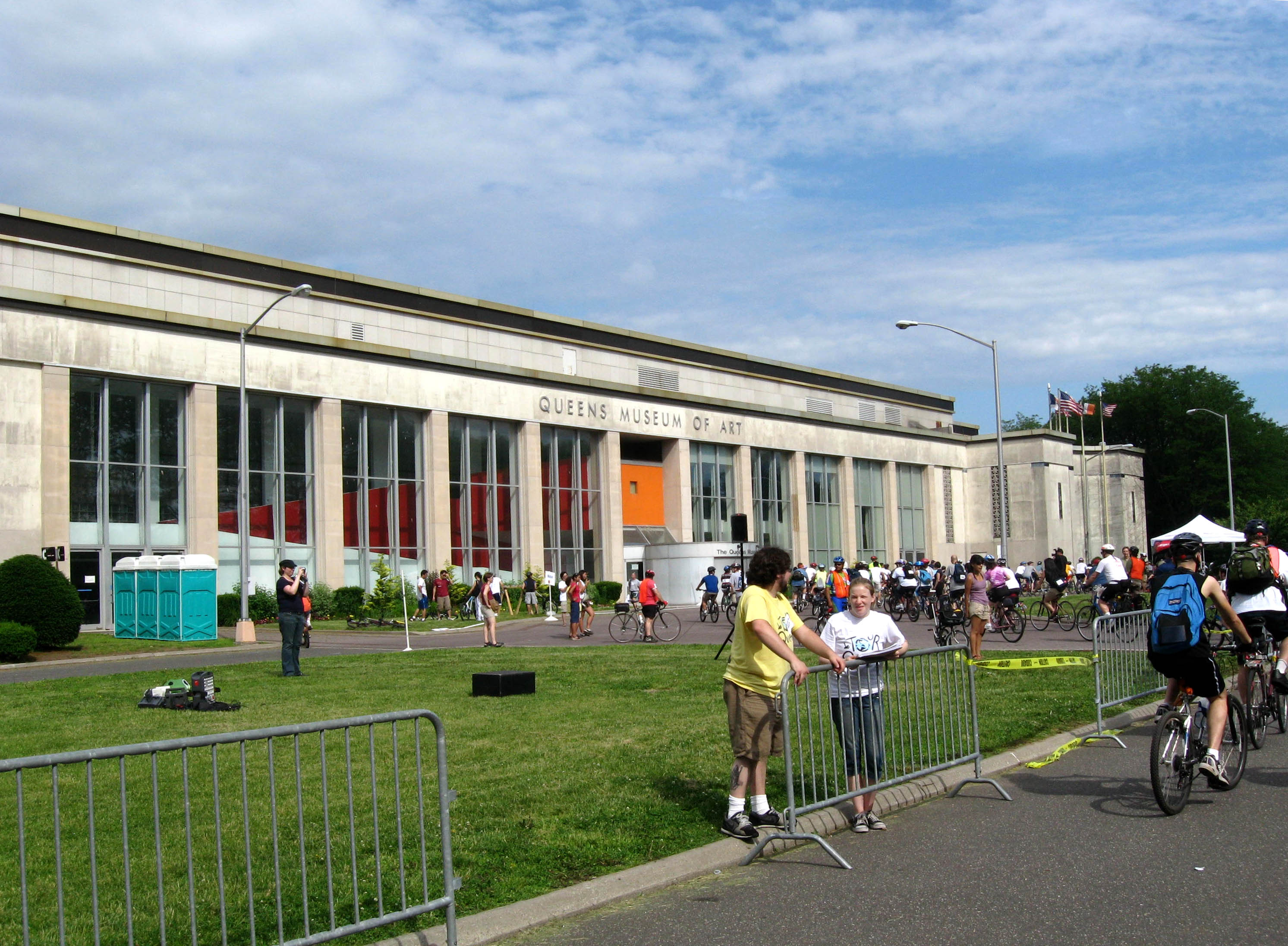 Looking northwest on a sunny morning at Queens Museum of Art as the first annual Tour de Queens prepares to roll.